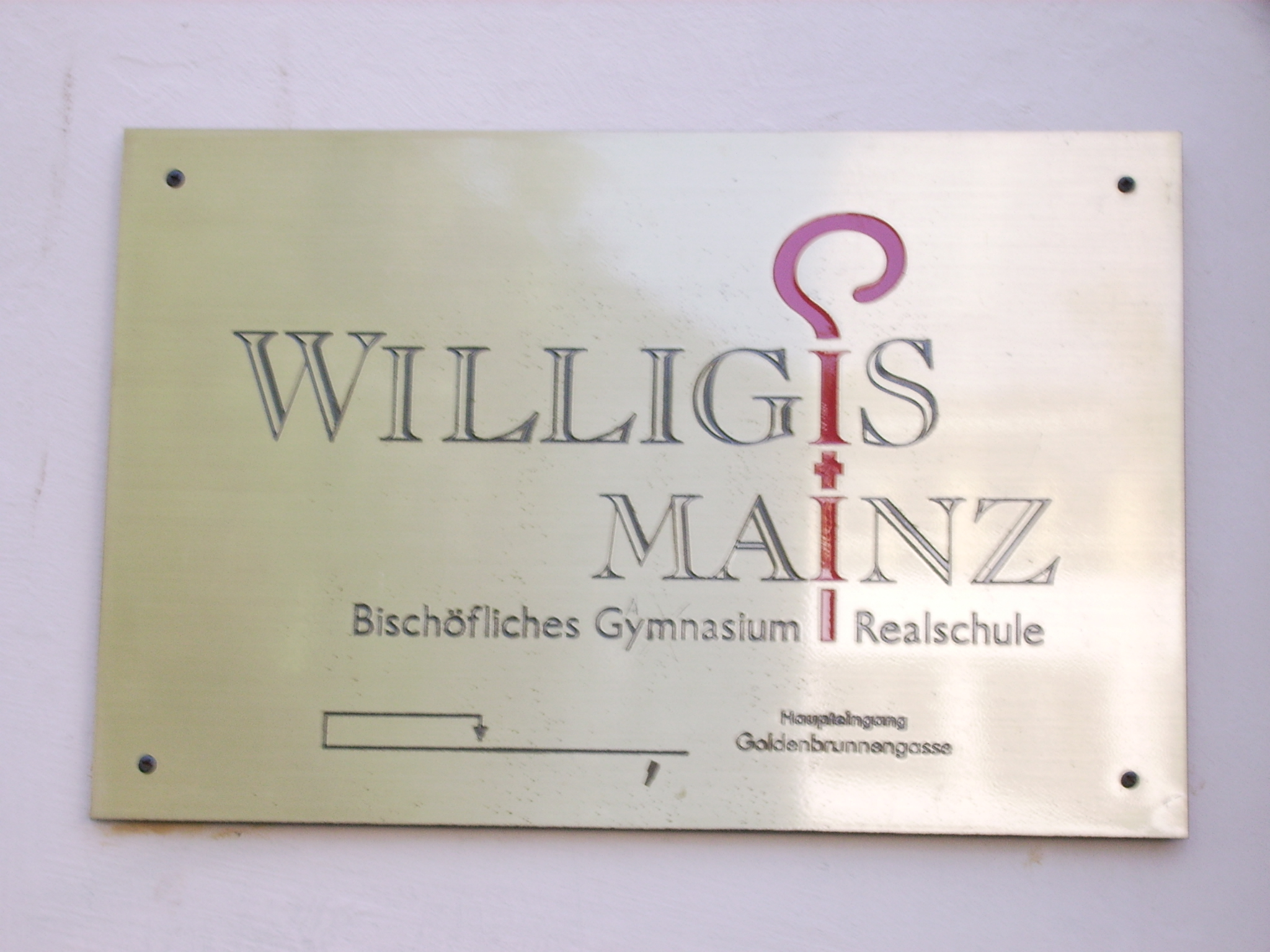 Logo of the Willigis-Gymnasium, Mainz, Germany